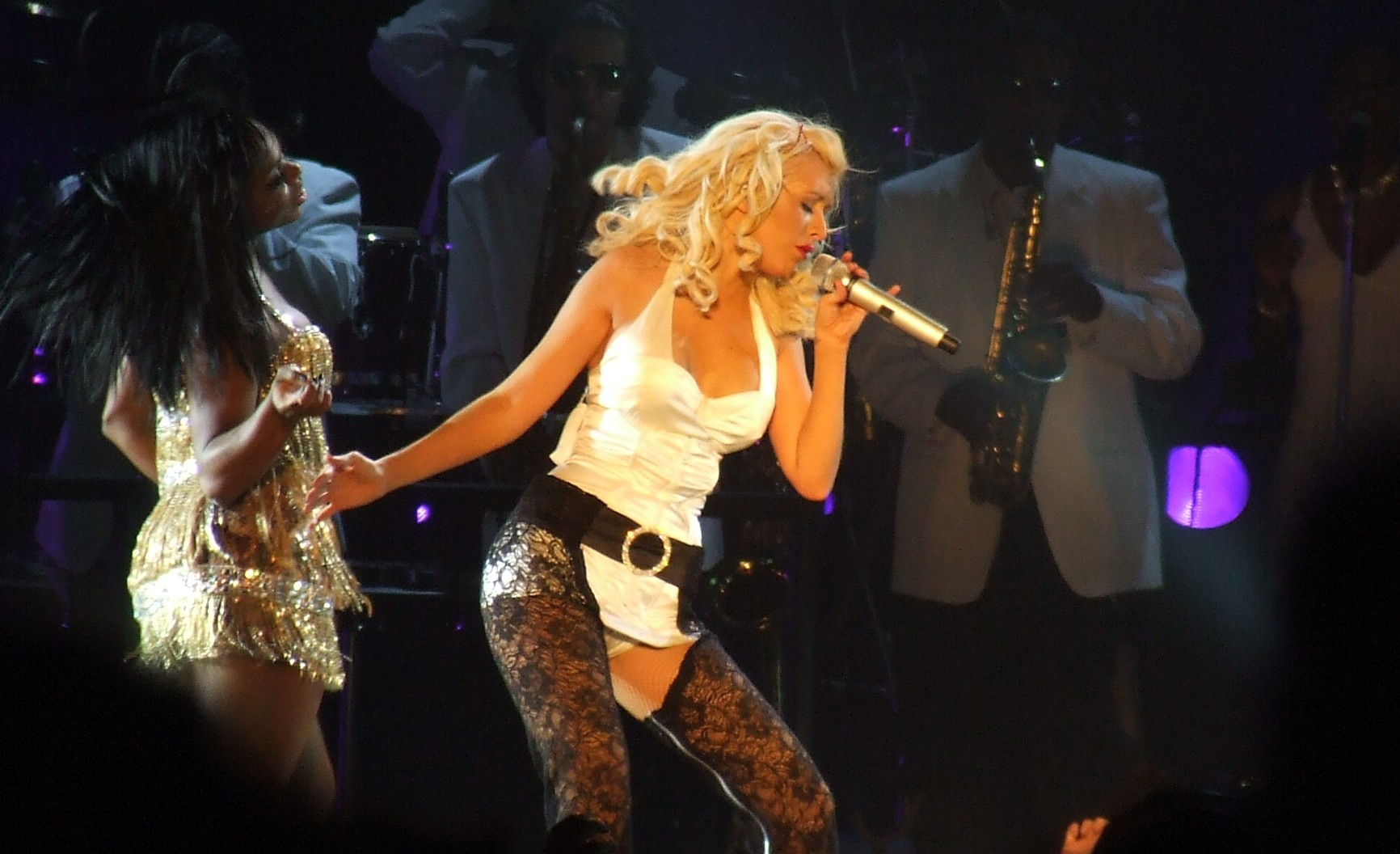 Christina Aguilera sings "Can't Hold us Down"